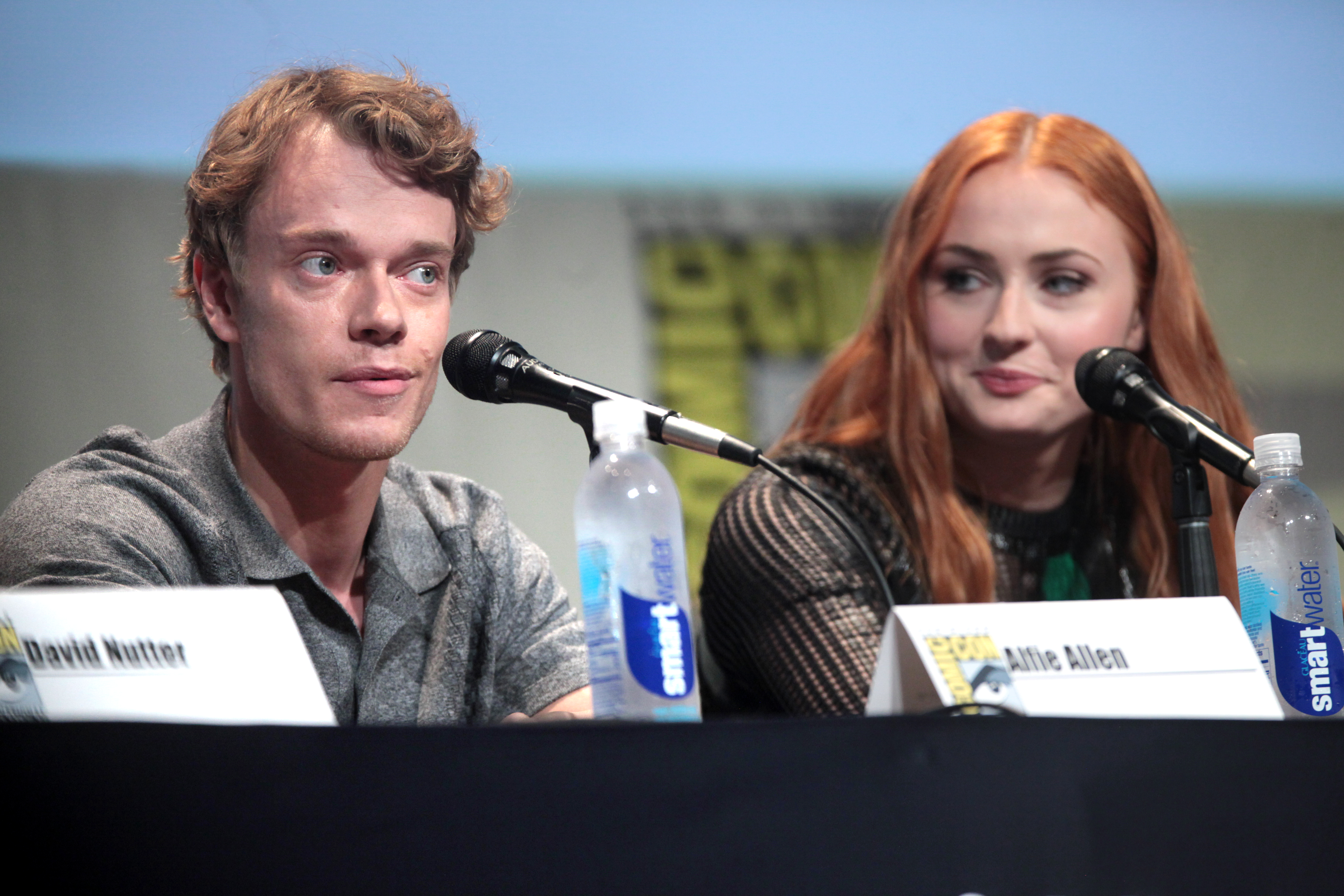 Alfie Allen and Sophie Turner speaking at the 2015 San Diego Comic Con International, for "Game of Thrones", at the San Diego Convention Center in San Diego, California.